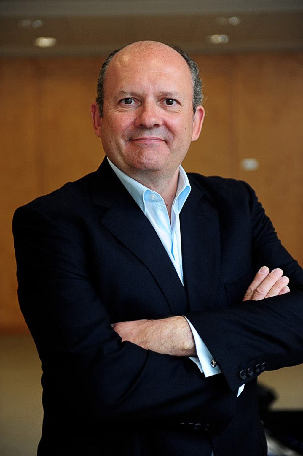 Image of Michael Spencer